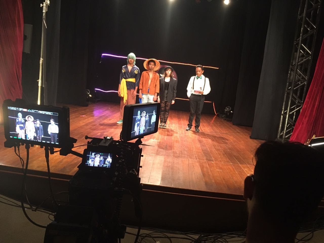 Mateus Honori Perfil seriado lana e carol mateus honori